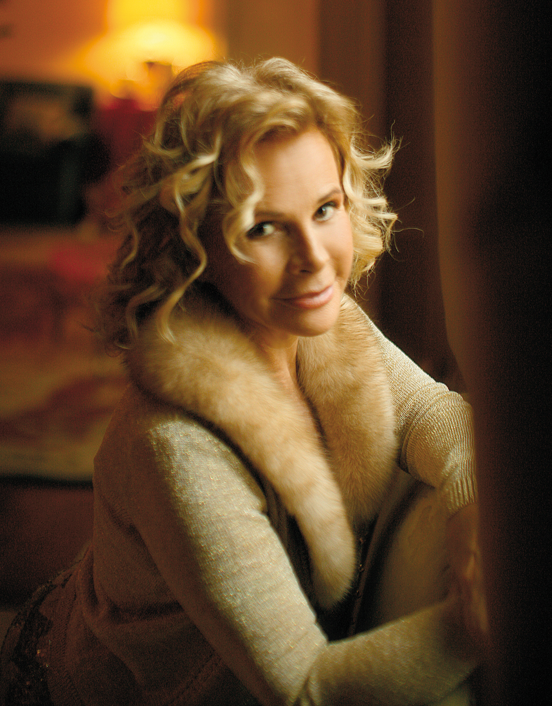 Anna Molinari